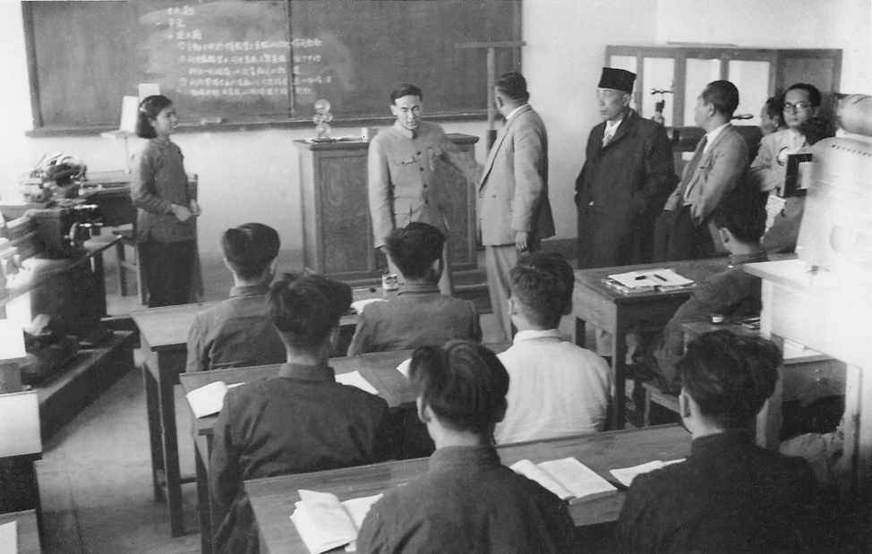 Beijing Experimental Workers Technical School